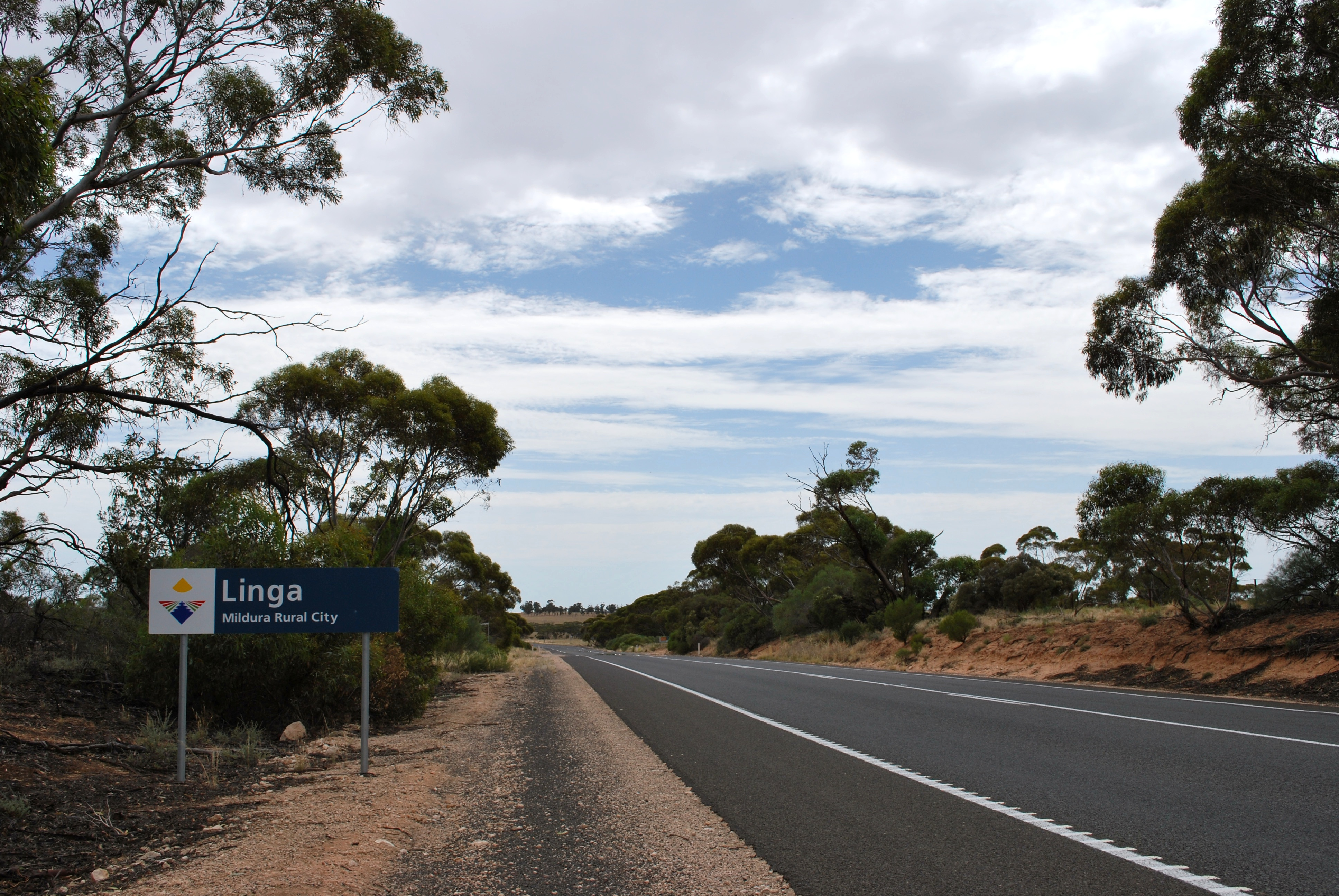 Town entry sign at Linga, Victoria